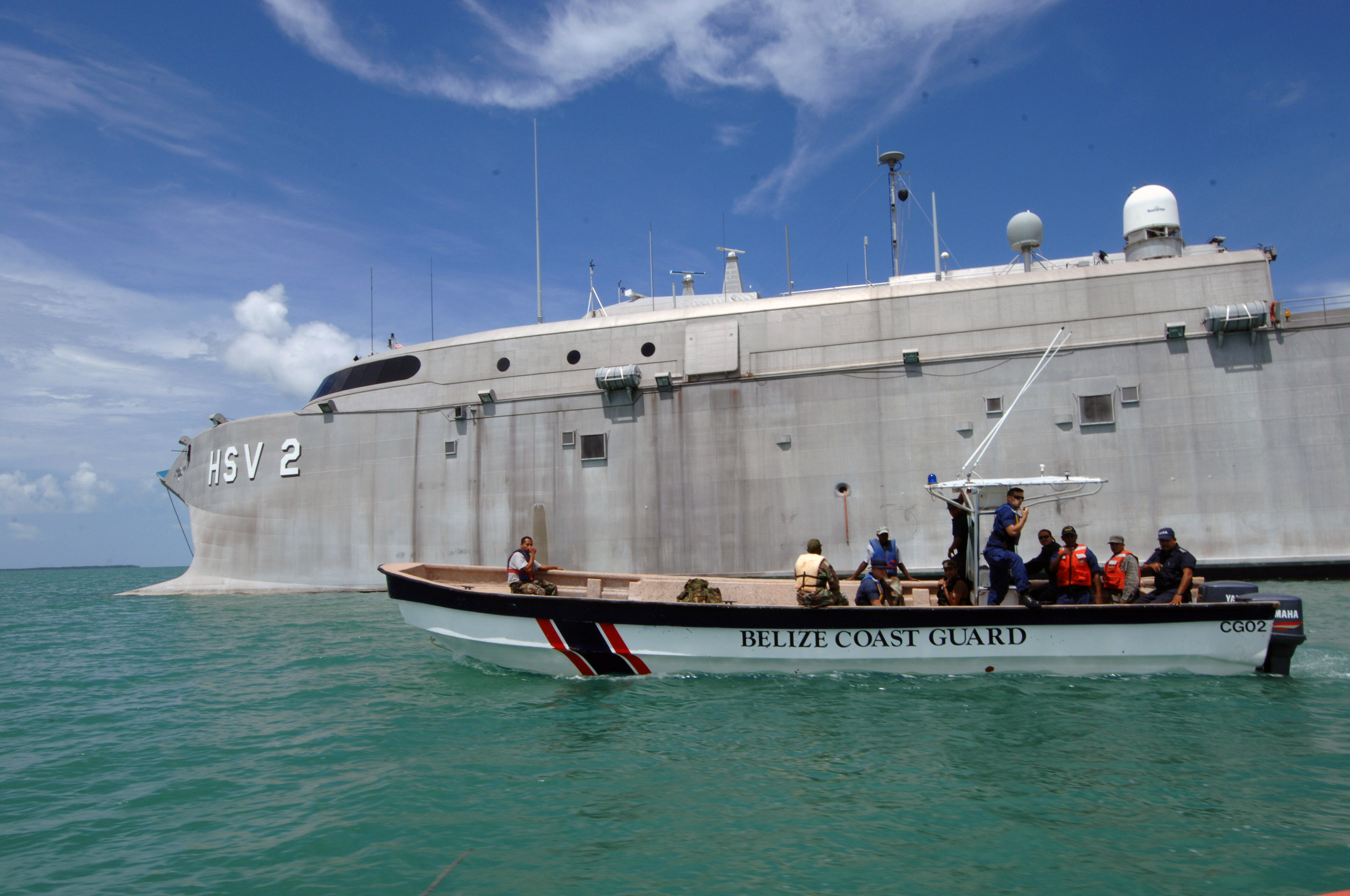 COAST OF BELIZE CITY, Belize (June 11, 2007) - U.S. service members from the Expeditionary Training Command and Coast Guard International Training Division conduct a vessel assessment aboard a Belizean Coast Guard boat prior to commencing coxswain subject matter exchanges on board High Speed Vessel (HSV) 2 SWIFT. Task Group 40.9 (TG 40.9), is deployed as part of the pilot Global Fleet Station (GFS) to the Caribbean basin and Central America. The mission is designed to validate the GFS concept for the Navy and support U.S. Southern Command objectives for its area of responsibility by enhancing cooperative partnerships with regional maritime services and improving operational readiness for the participating partner nations. U.S. photo by Mass Communication Specialist 1st Class David Hoffman (RELEASED)